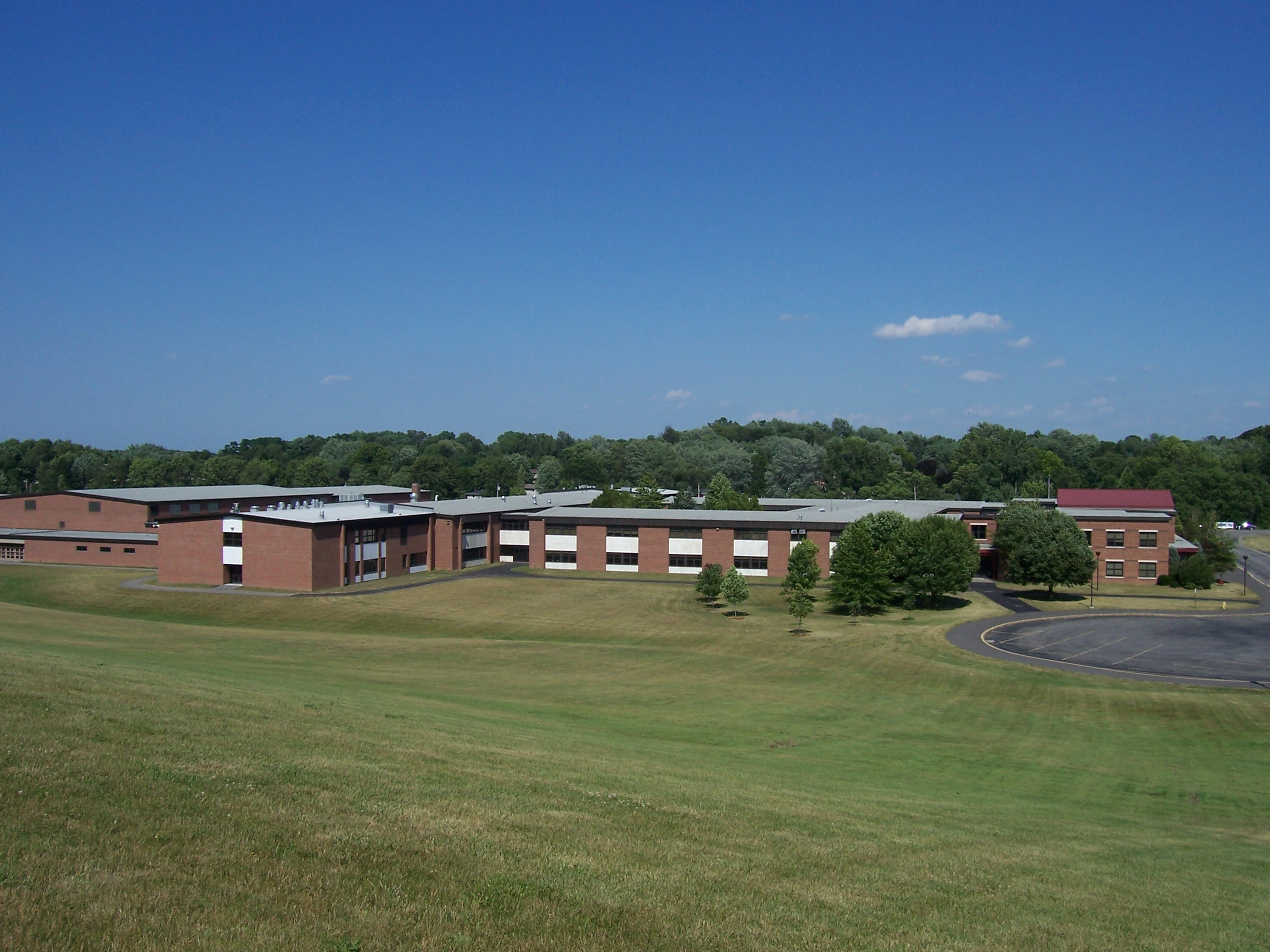 West view of Fairport High School in Perinton, New York